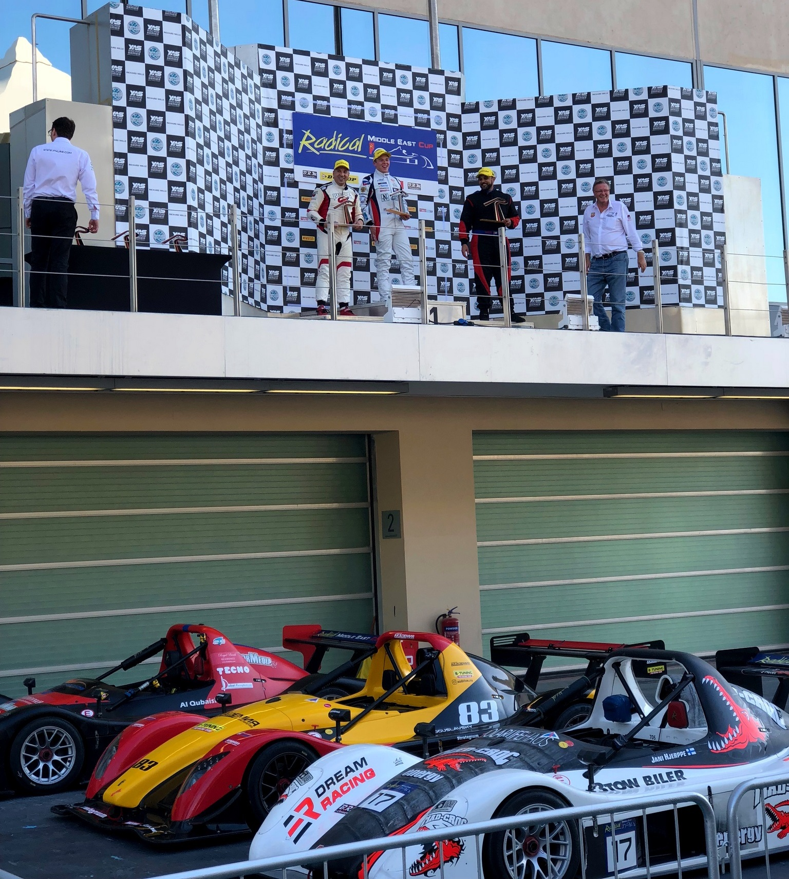 Radical MEC 2018 Boguslavsky